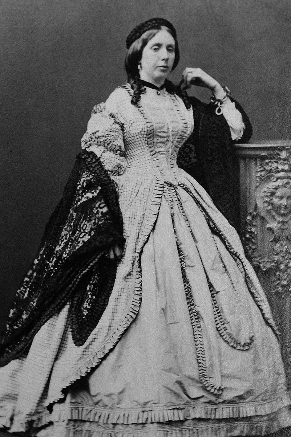 Photograph of Her Grace The Duchess of Marlborough (Frances Anne Spencer-Churchill).